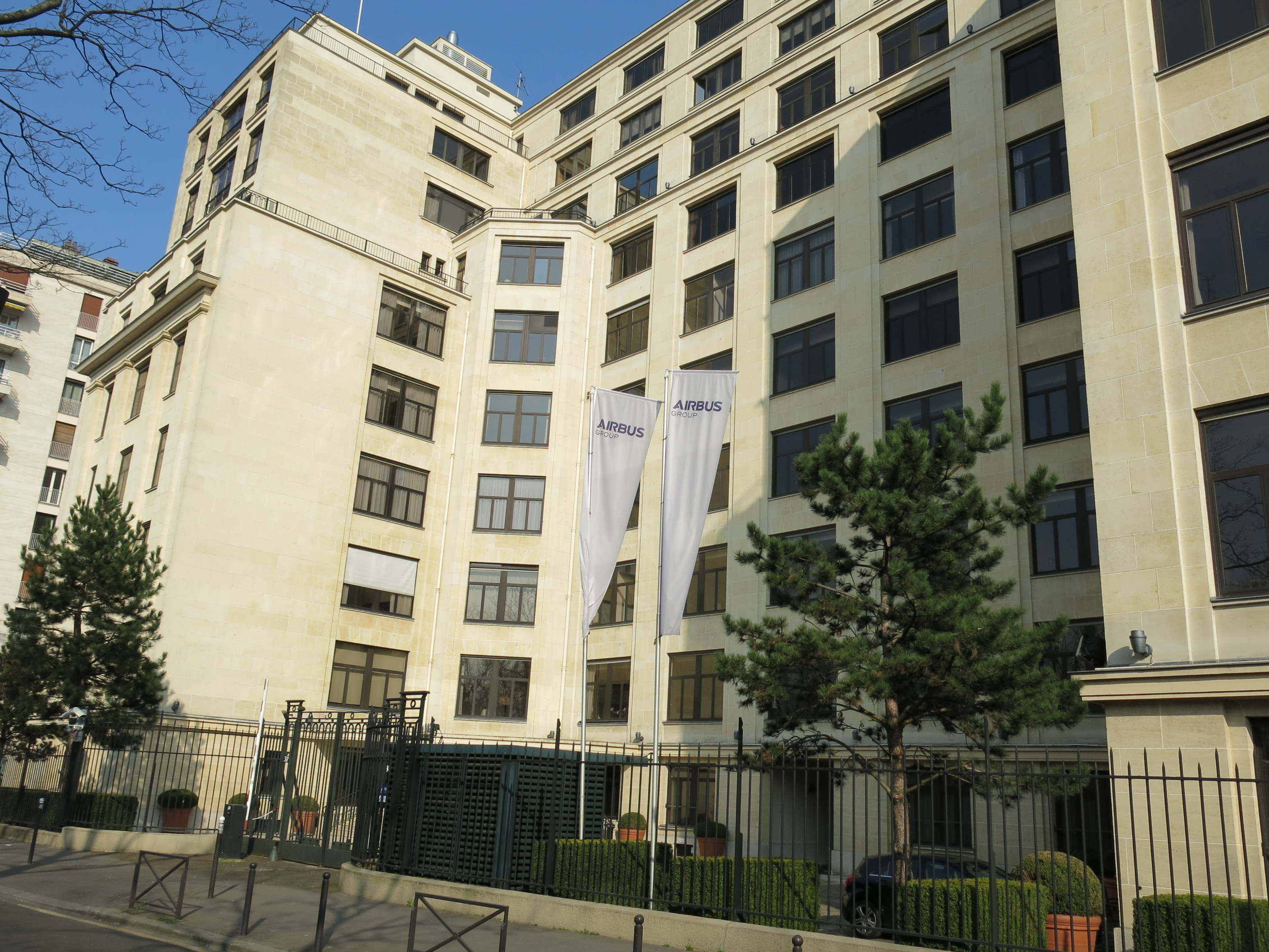 Building at 37 boulevard de Montmorency, Paris 16th arrond. - Former head office of Aérospatiale